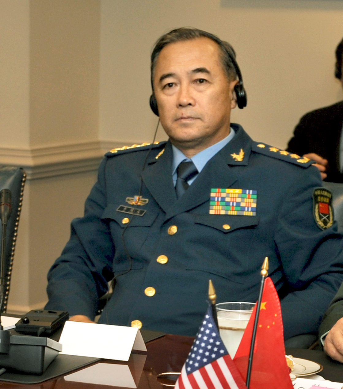 Gen. Ma Xiaotian, deputy chief of the People's Liberation Army General Staff.